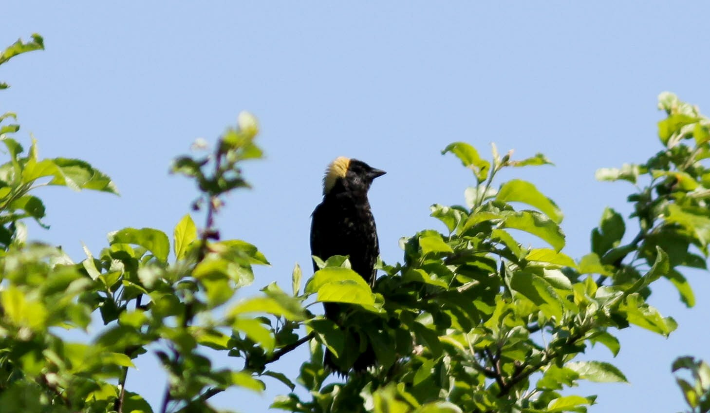 Dolichonyx oryzivorus